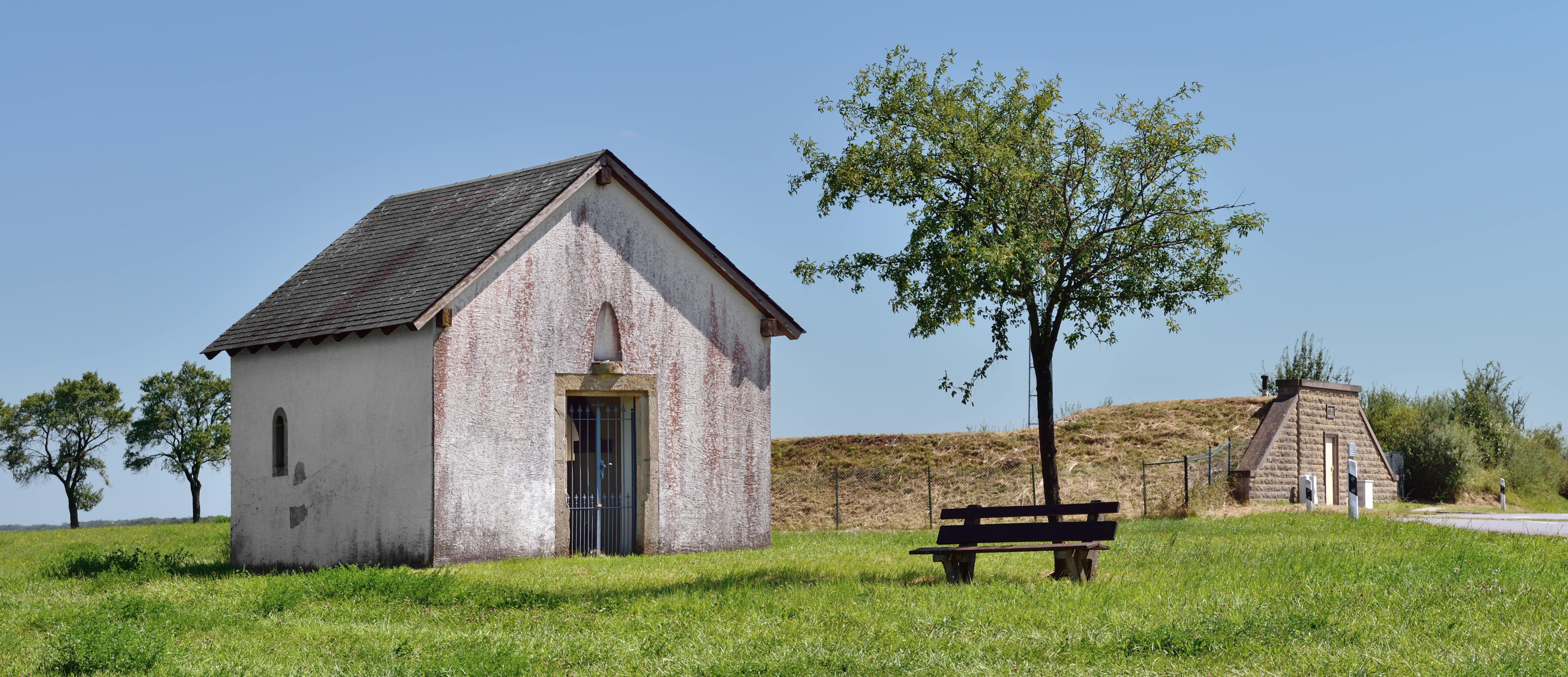 Saint Donatus chapel at Beidweiler, Luxembourg.